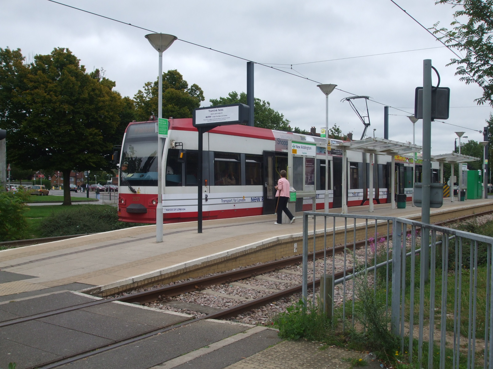 New Addington tramstop viewed from the west